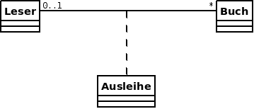 A UML class diagram showing an association class.